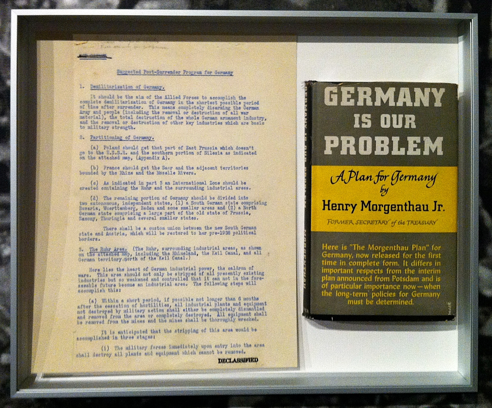 Henry Morgenthau jr. plan germany is our problem